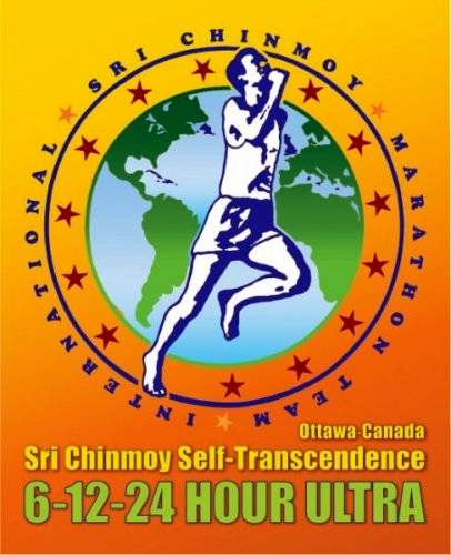 Logo from Self-Transcendence 24 Hour Race in Ottawa.